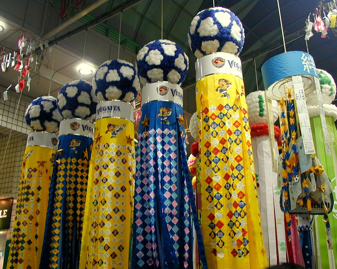 the decorations of Sendai Tanabata Festival (the Star Festival of Sendai) at Sendai CLIS Road to cheer Vegalta SENDAI up